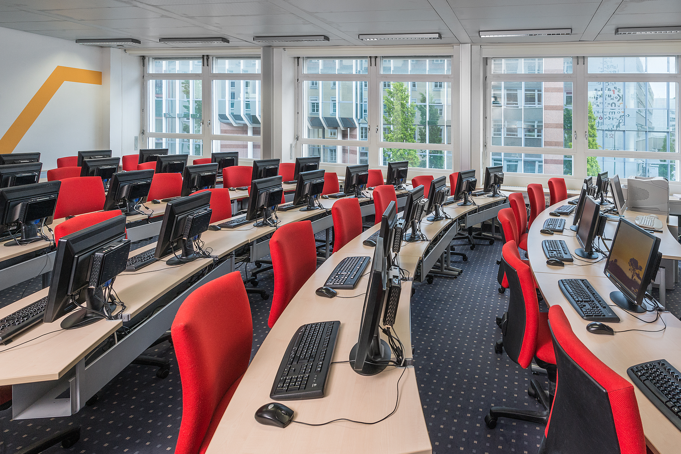 SDI Munich